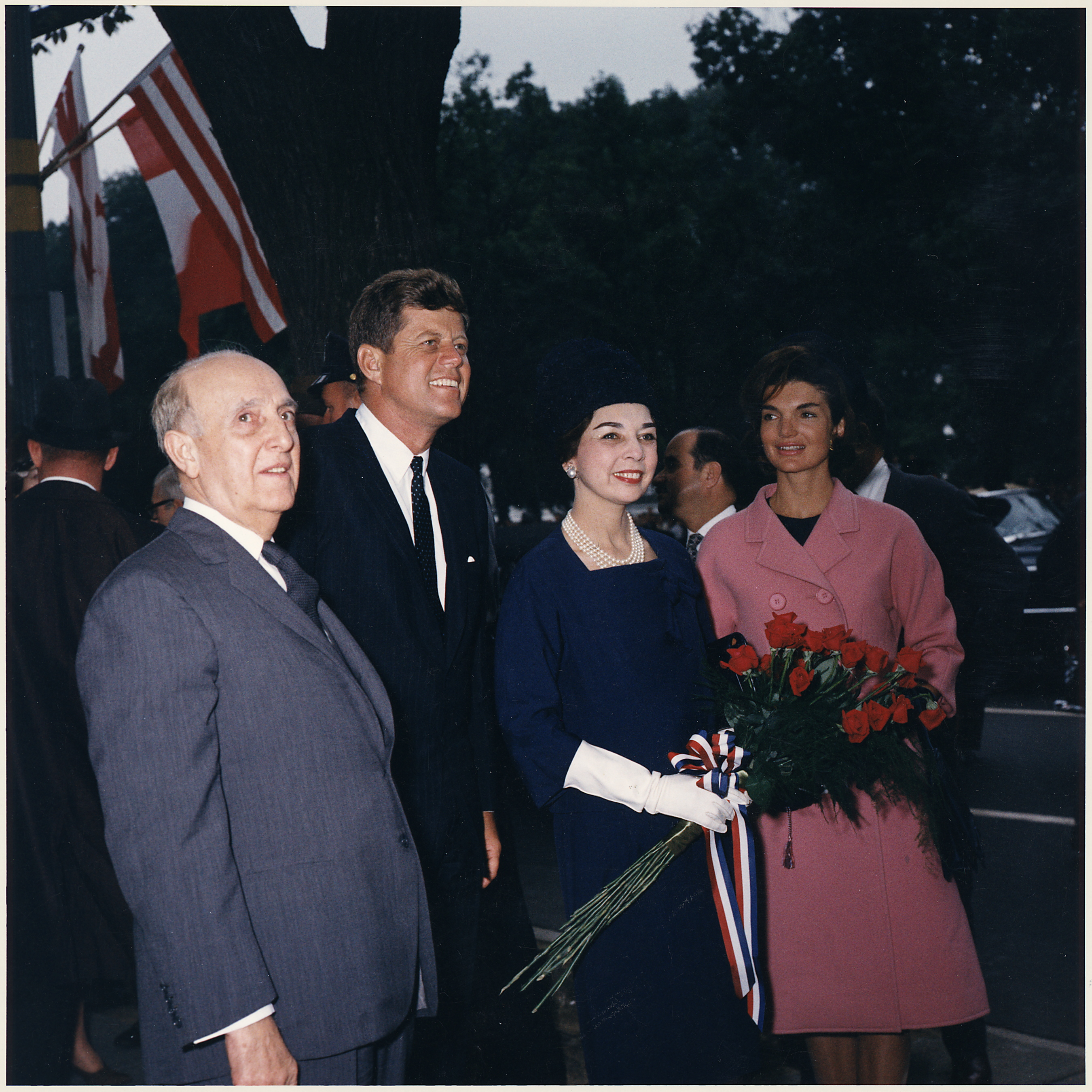 Arrival ceremonies for the President of Peru. President Don Manuel Prado, President Kennedy, Mrs. Prado, Mrs. Kennedy., 09/19/1961